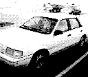 A picture of a car taken with a Game Boy Camera.